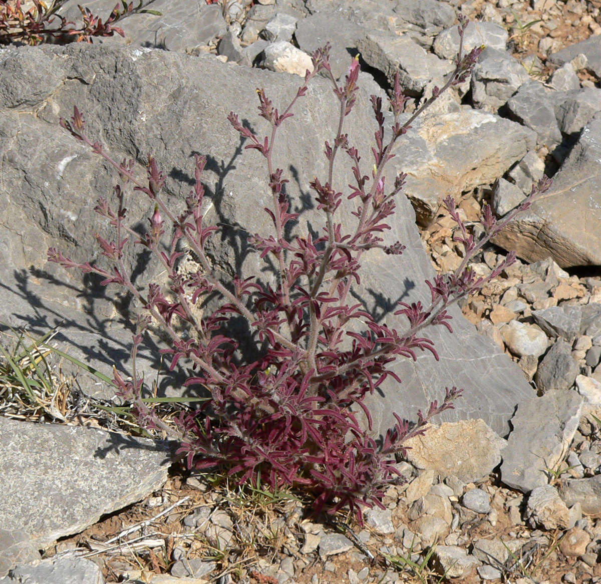 Cordylanthus parviflorus at the summit of Turtlehead Peak, Spring Mountains, southern Nevada (elev. about 1900 m)